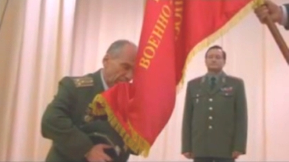 Col. Leonid Khabarov is going to retire, shown here kissing the war banner of his unit during the farewell ceremony.